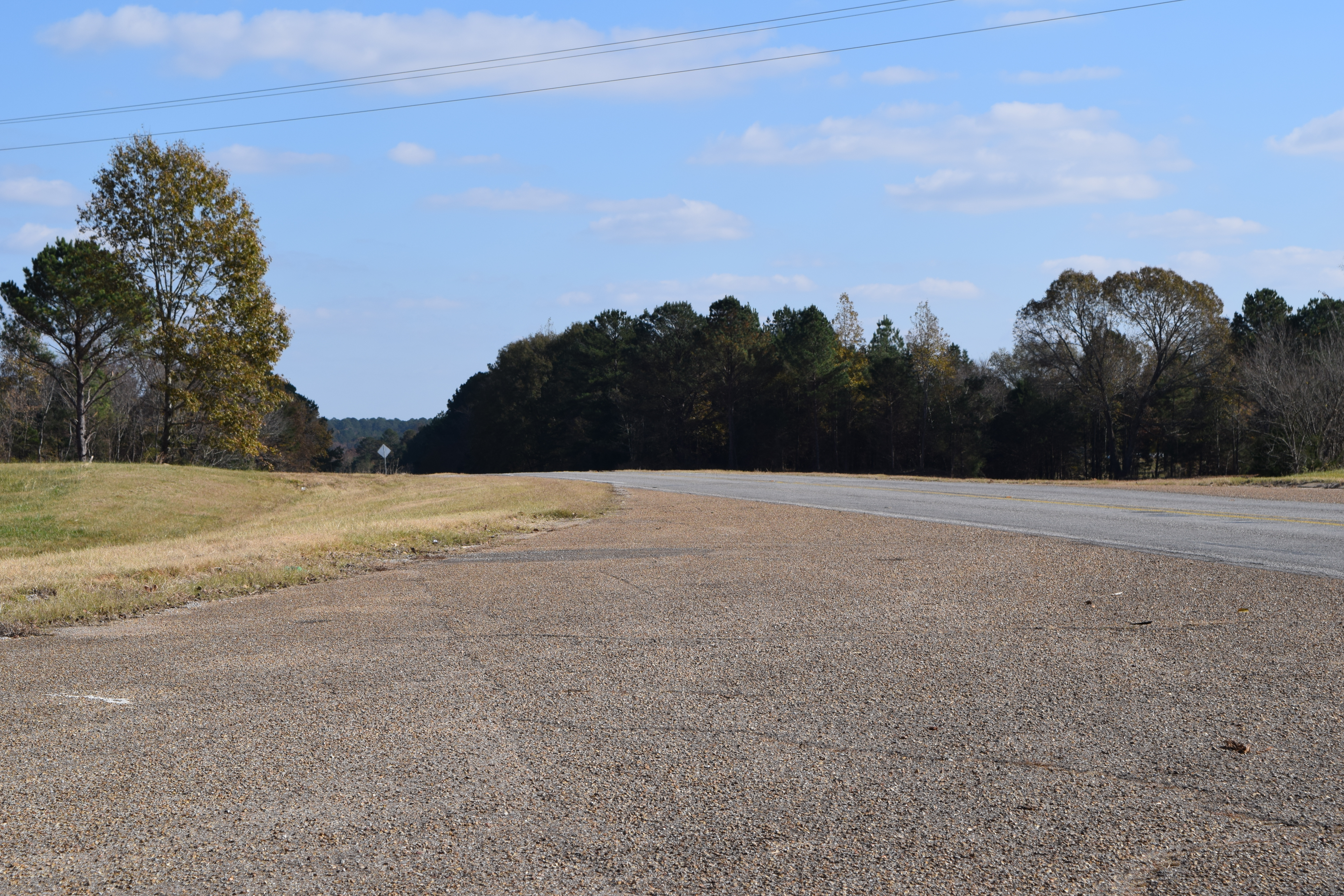 thumb